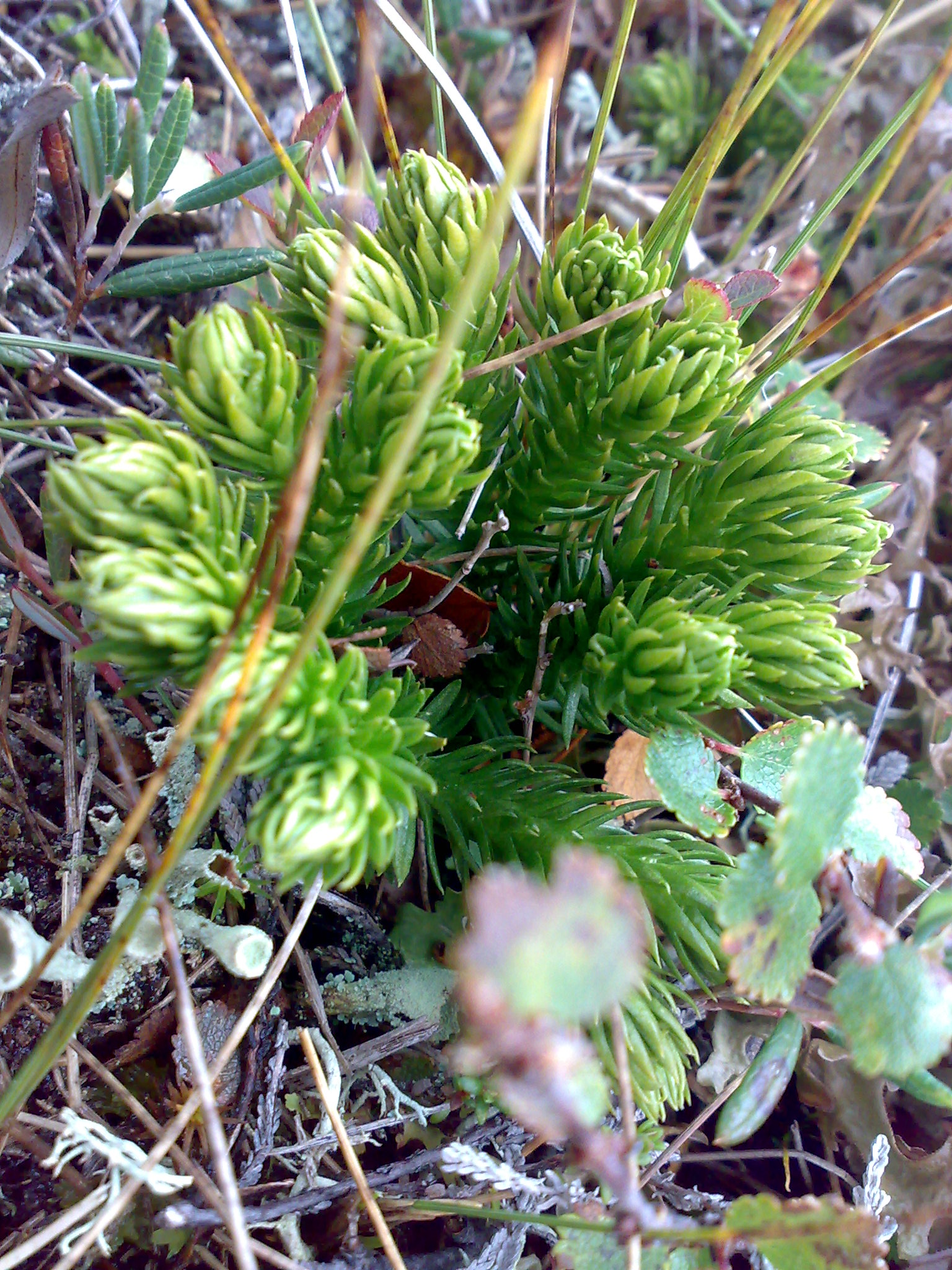 Huperzia arctica in Flaa, Buskerud, Norway. 850 metres.